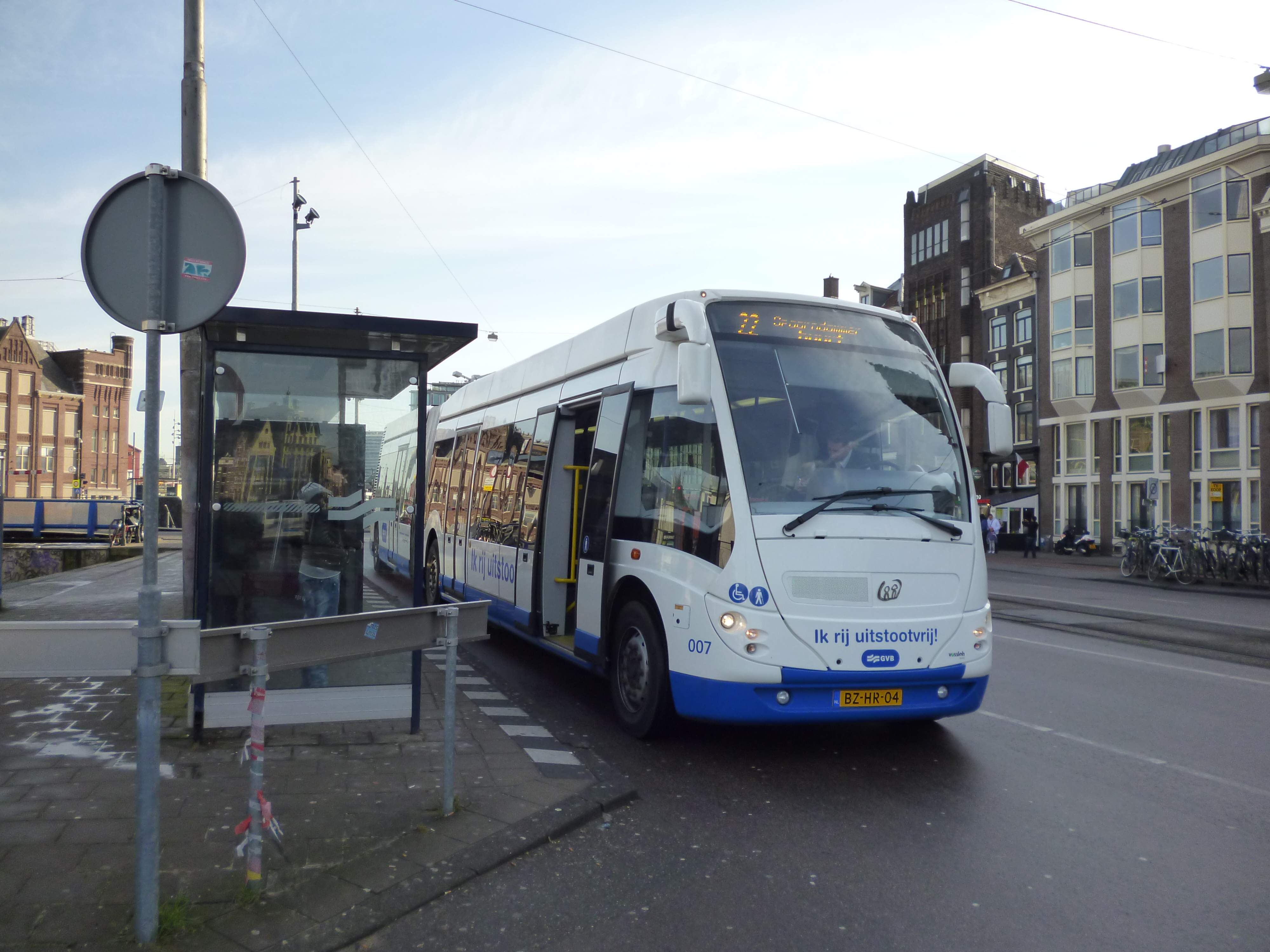 APTS Phileas 18 BZ bus (#007, reg. BZ-HR-04) in Amsterdam, Netherlands. Built 2009, Gemeentevervoerbedrijf (GVB) operator.